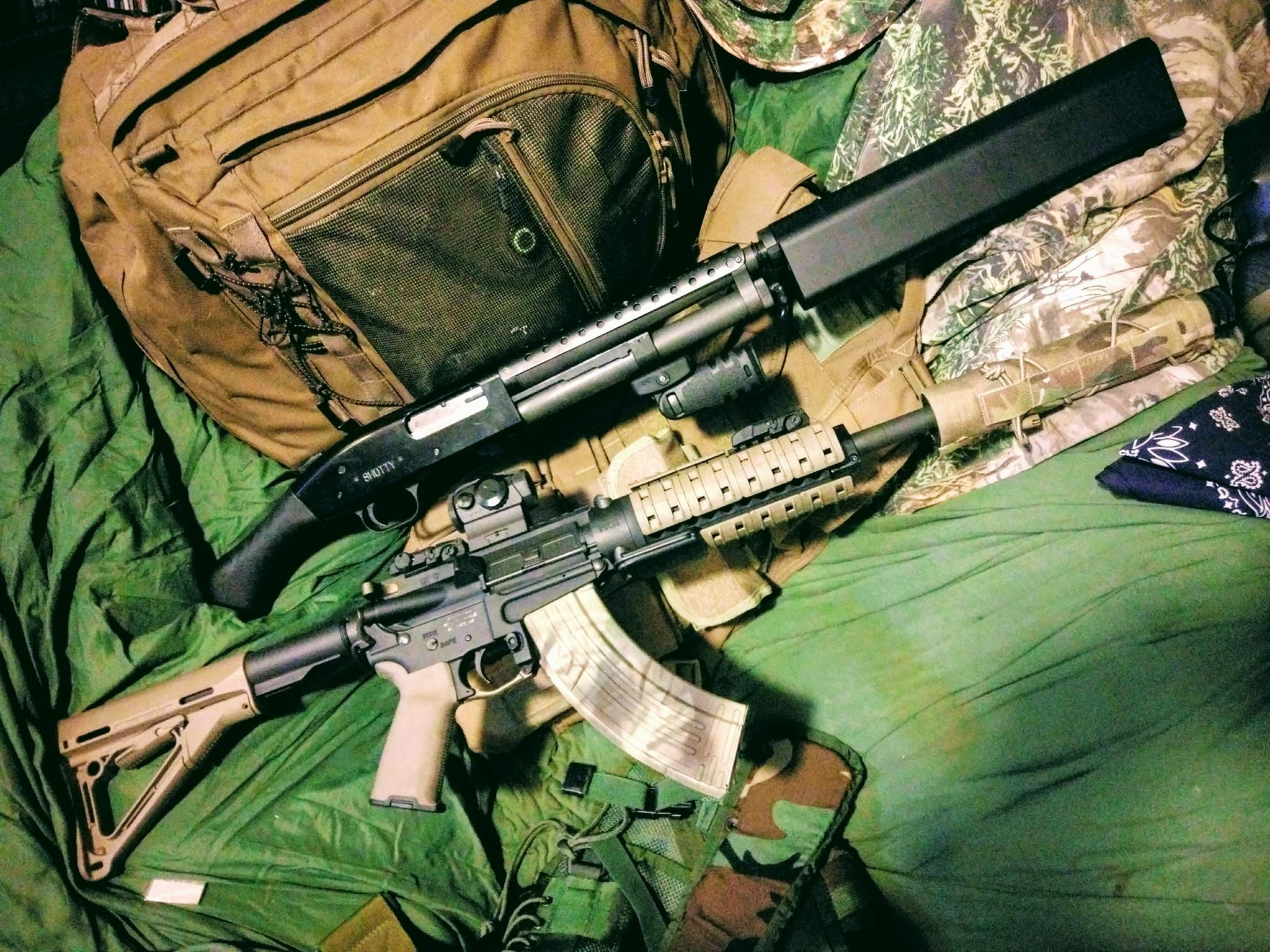 TAC2 Shotty 12 gauge handgun with SilencerCo Salvo, and MGI Hydra 7.62x39mm short-barreled rifle with SilencerCo Harvester